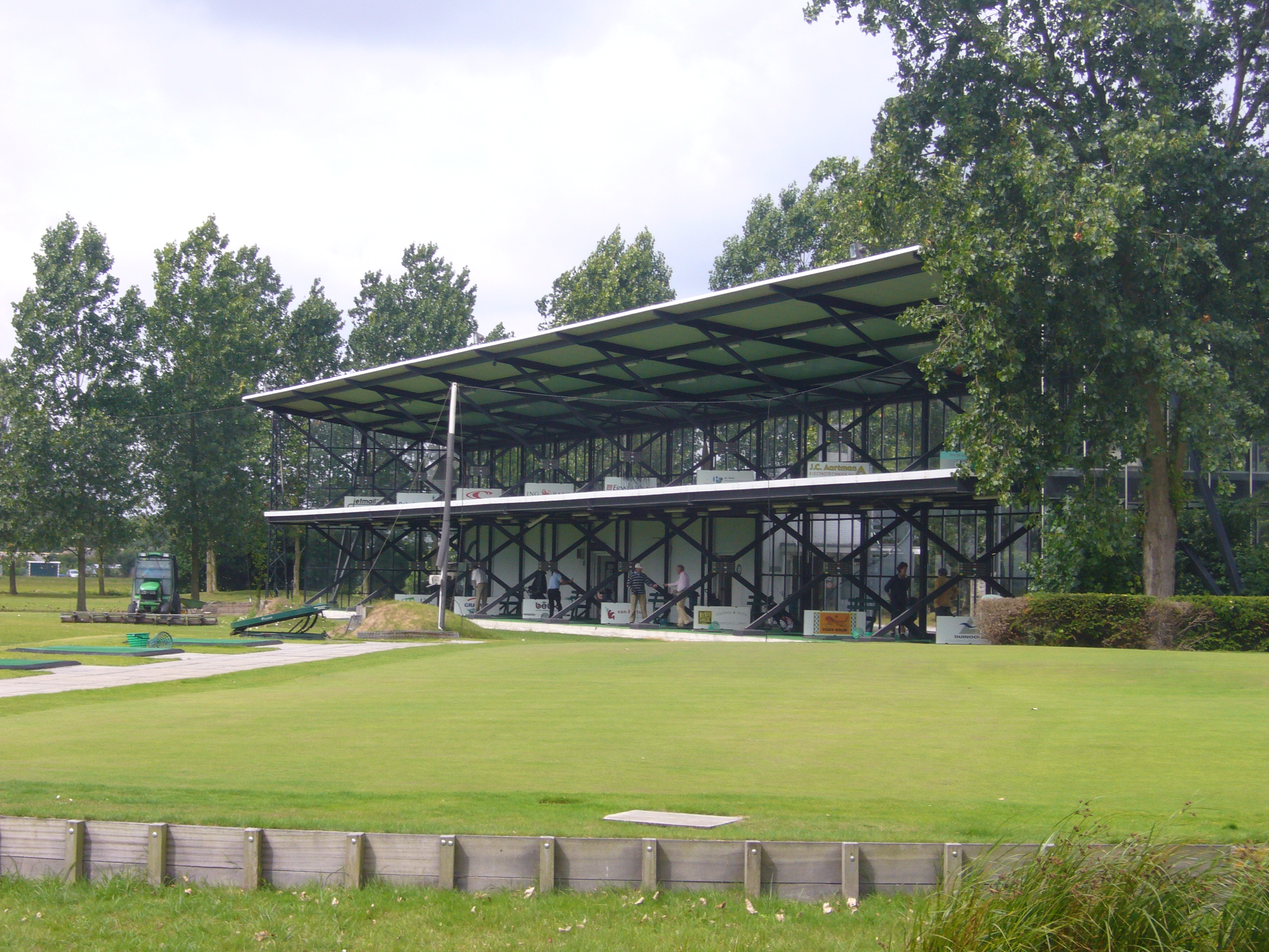 Golf Centrum Noordwijk, Holland